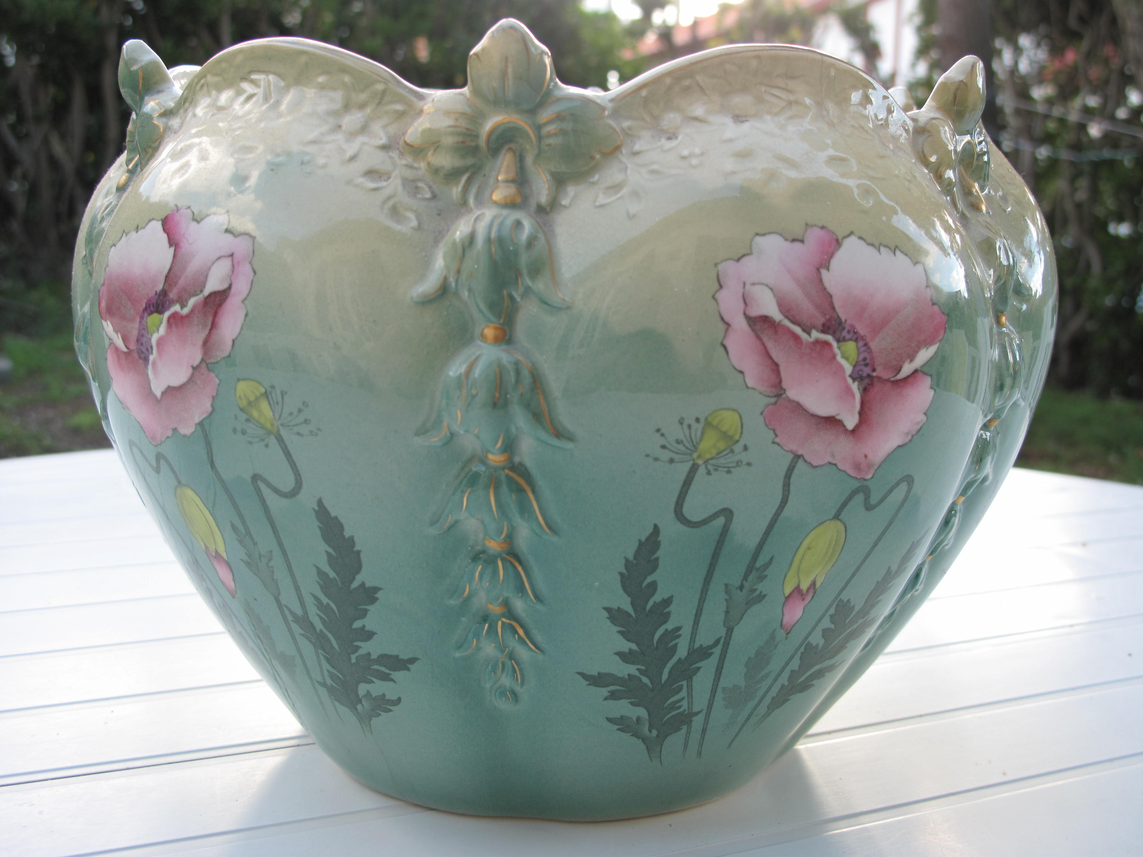 Cachepot in Art-Nouveau style. Beginning of XXth century, France.